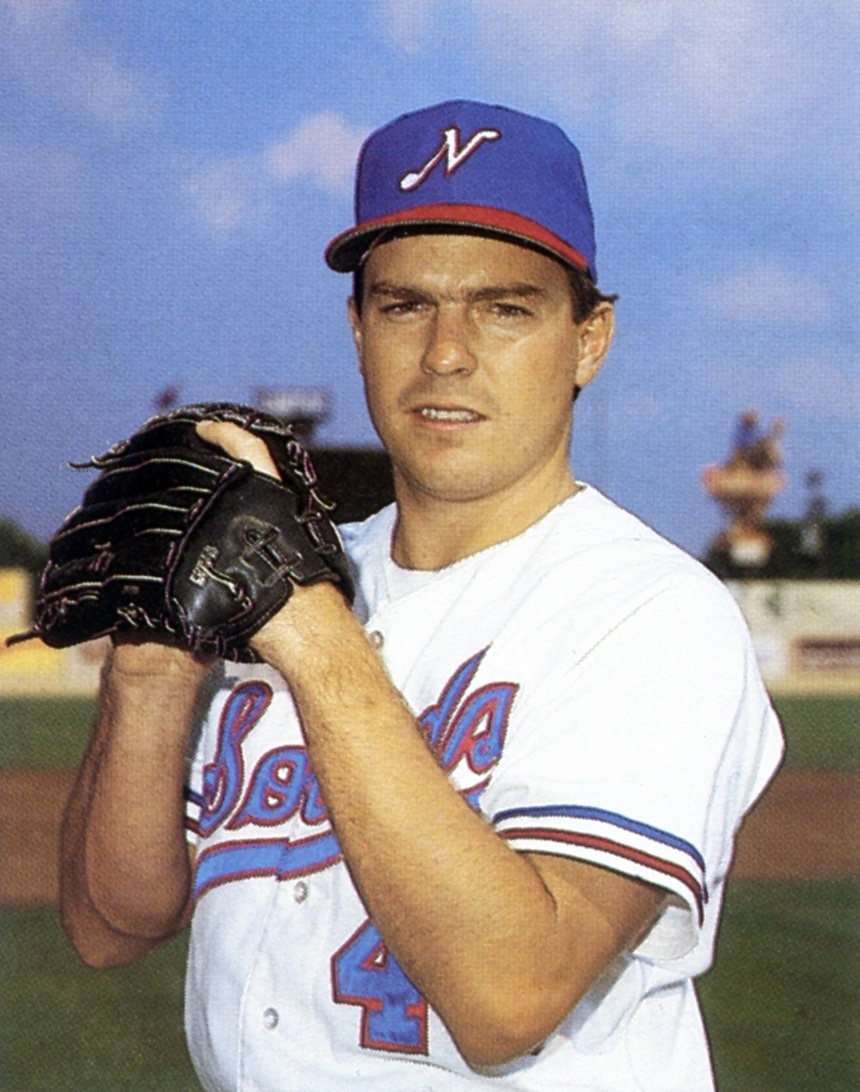 Pitcher Jeff Montgomery of the 1987 Nashville Sounds Minor League Baseball team of the American Association